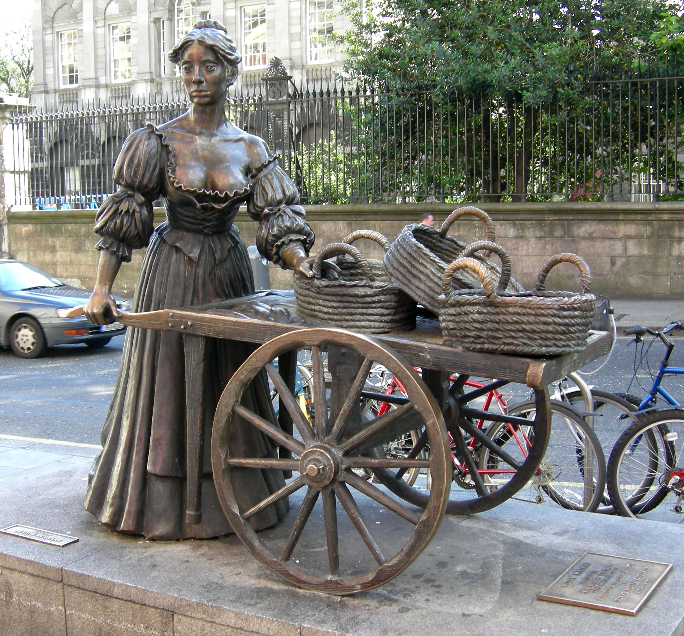 Statue of Molly Malone on Grafton Street, Dublin. Note - the statue has been moved to Suffolk Road while a light railway line is being built in Grafton Road.